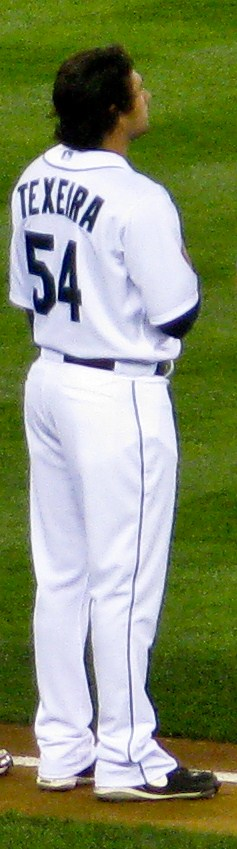 Kanekoa Texeira, professional baseball pitcher for the Seattle Mariners.